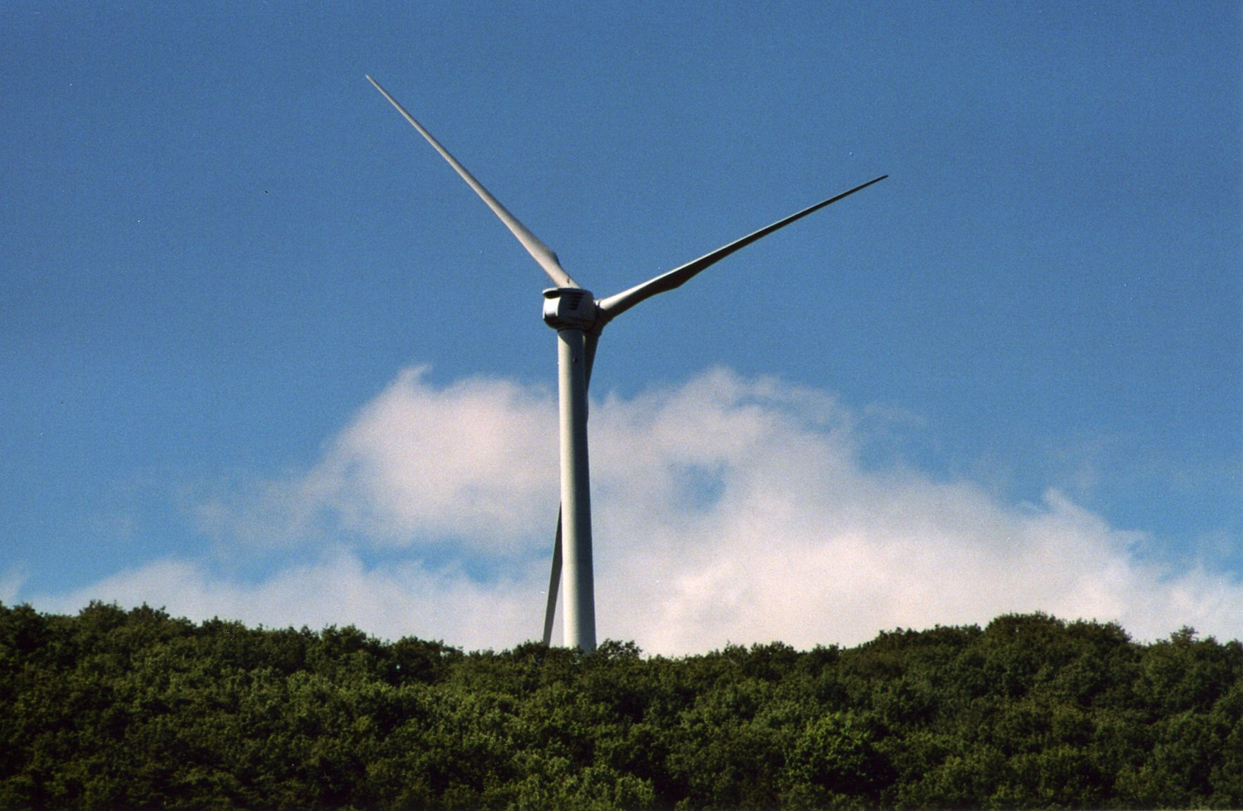 Dutch Hill/Cohocton Wind Farm near Cohocton, New York